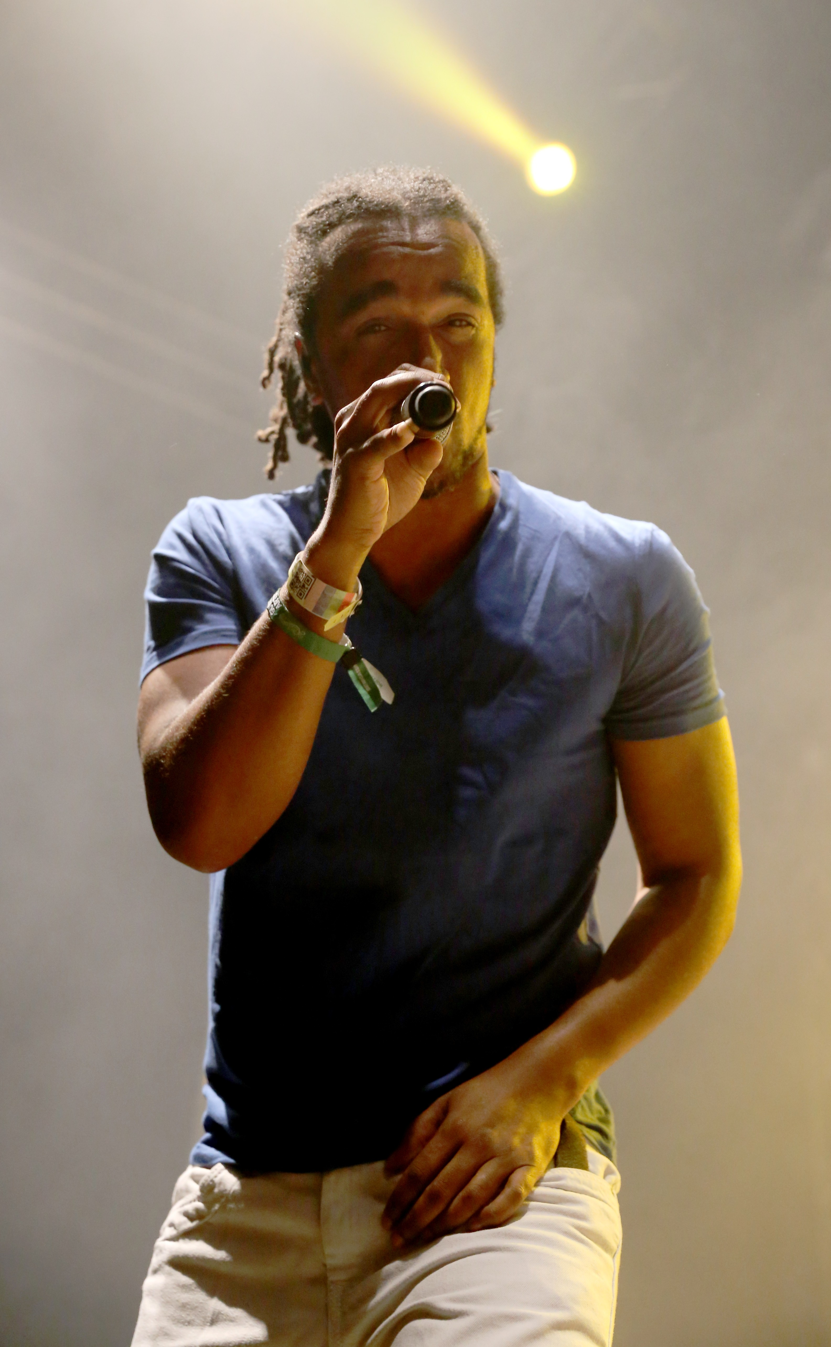 Dub Incorporation at Chiemsee Reggae Summer Festival 2013.